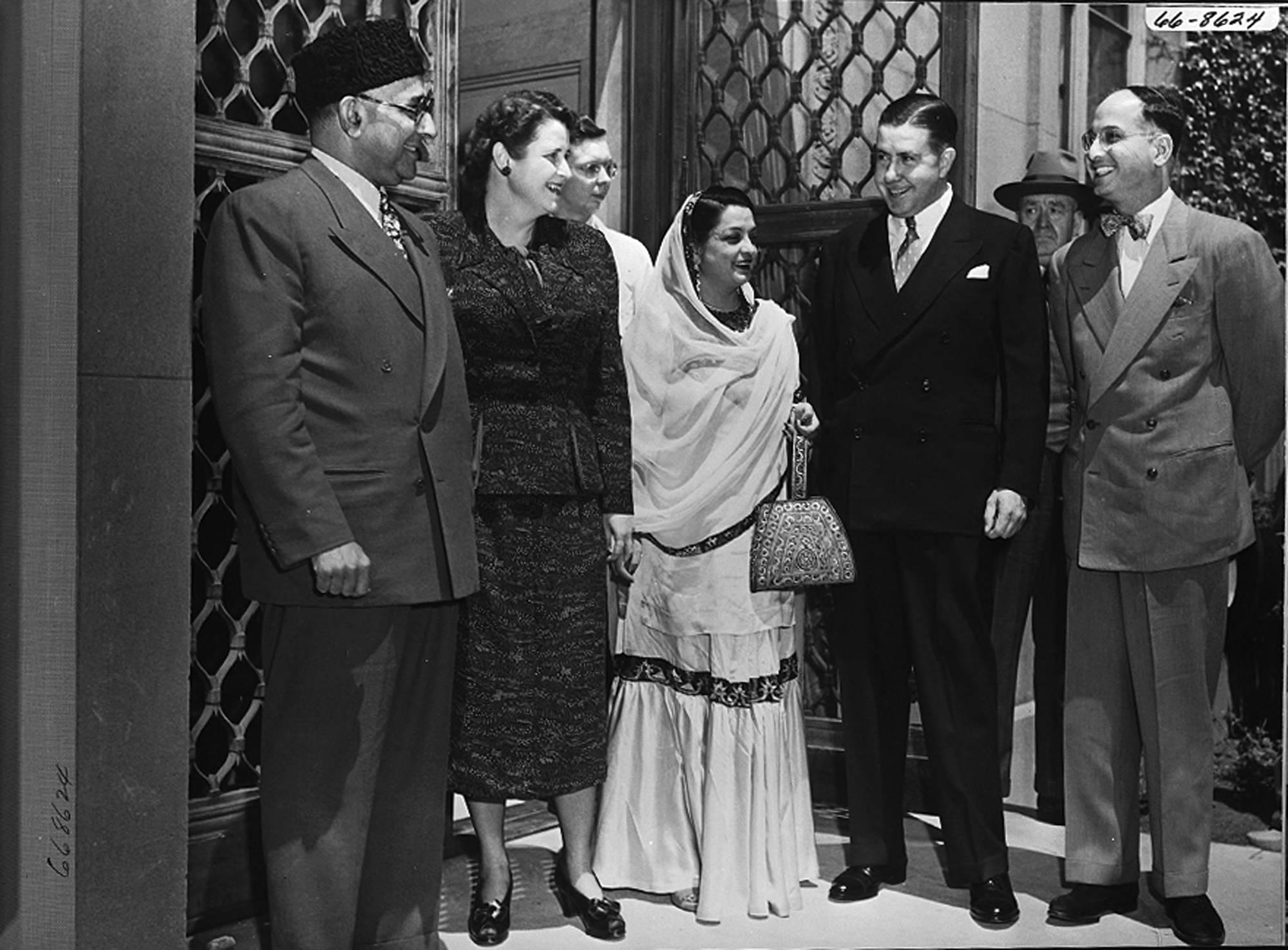 Begum Liaquat Ali Khan Meets President of MIT; image shows Liaquat Ali Khan, Mrs. Killian, Begum Liaquat Ali Khan, James Rhyne Killian (from left to right)